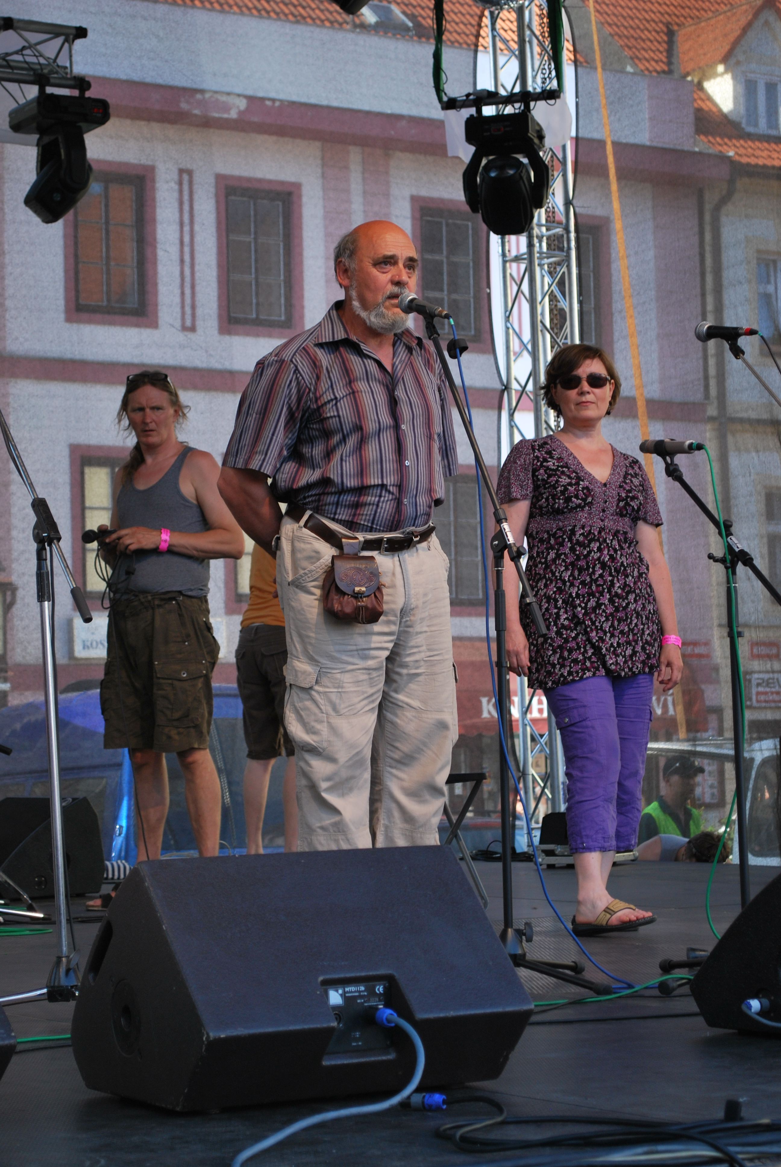 Jiří Cerha, member of Czech music group Spiritual kvintet during concert in Písek town, Czech Republic.